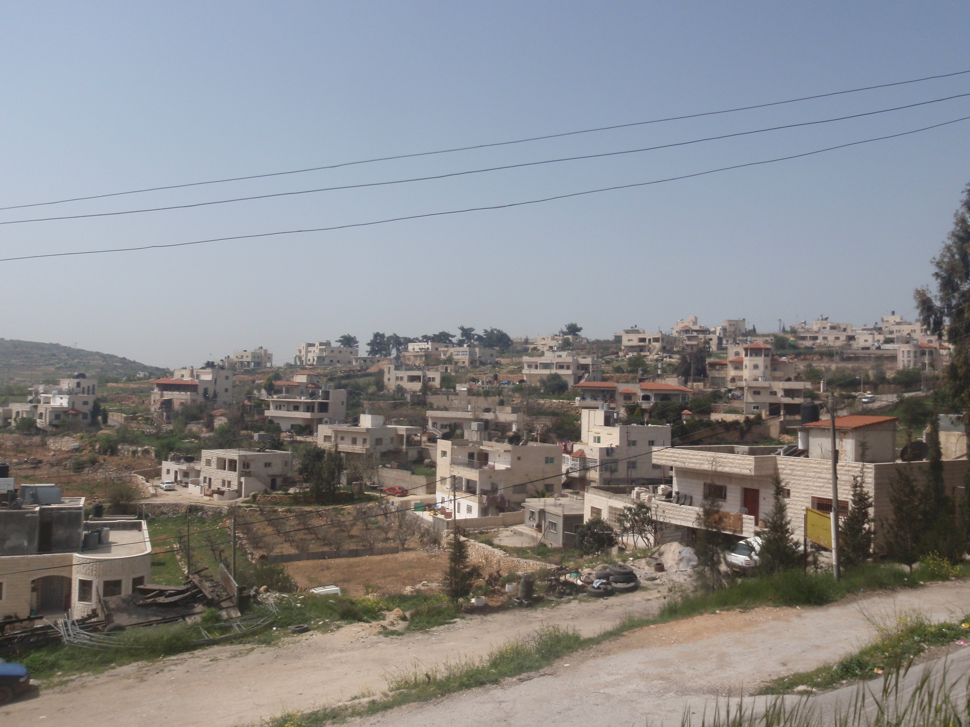 Beit Ummar, West Bank, Palestine